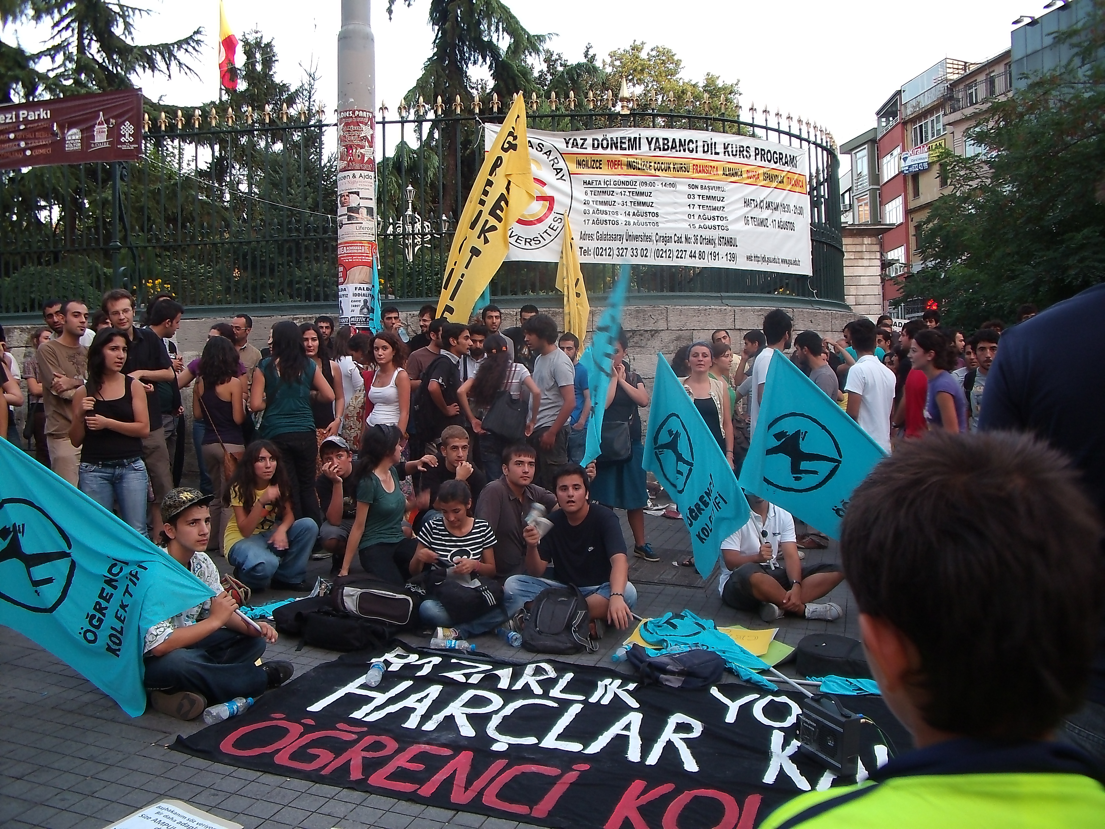 Student's strike against the Bolonia Process an the increasing of the university taxes in Istanbul, Turkey